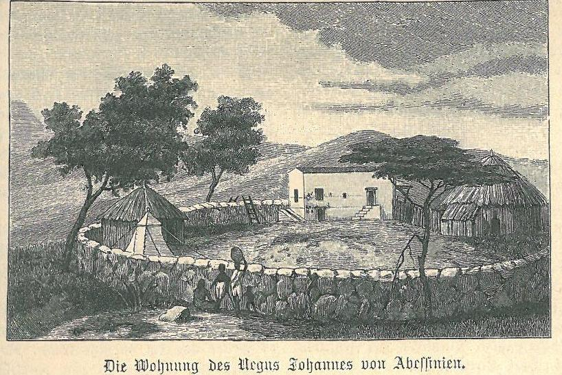 Home of John IV of Ethiopia in Debre Tabor